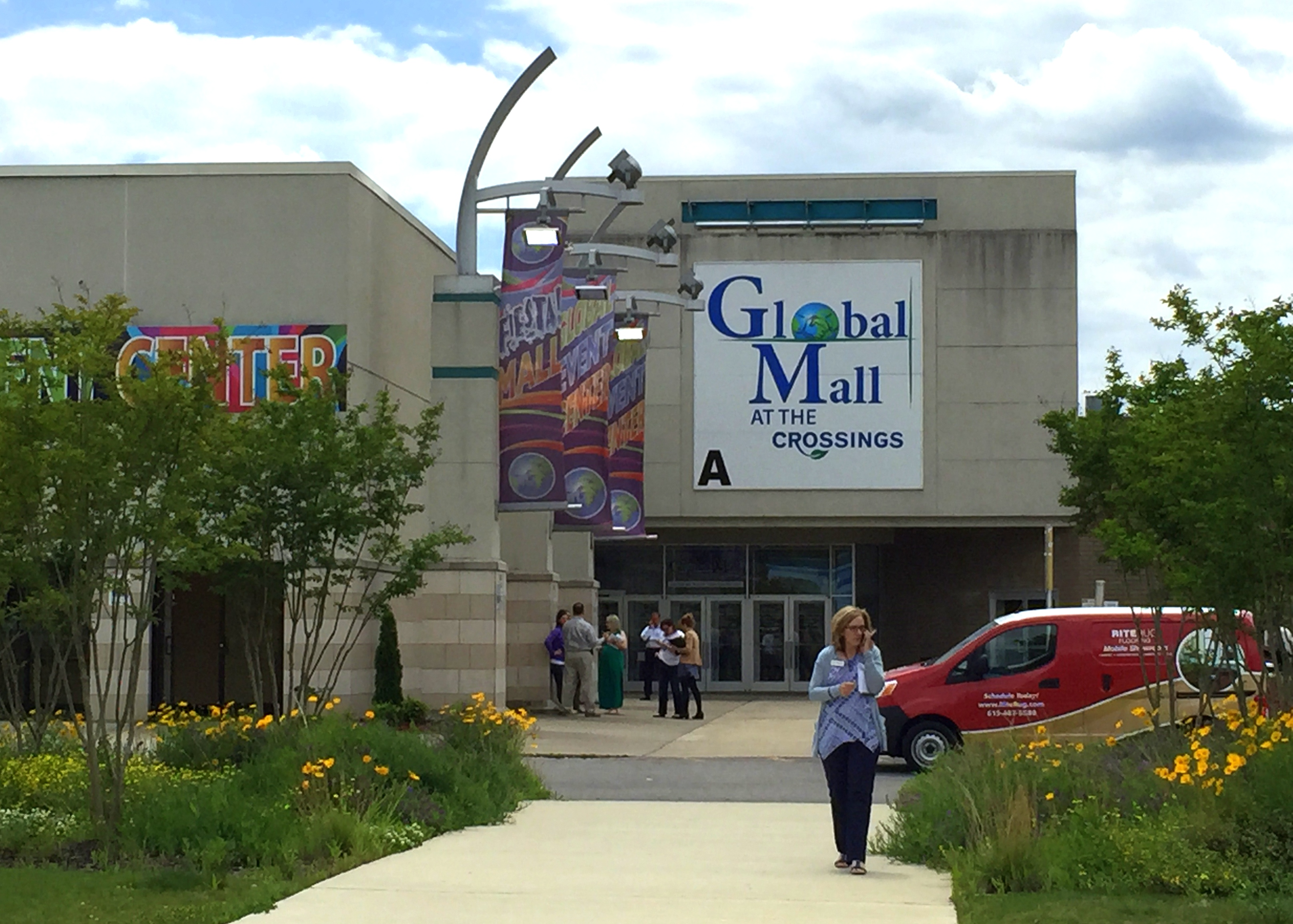 Upper north entrance to Global Mall at the Crossings in the Nashville, Tennessee suburb of Antioch, taken in May of 2016.